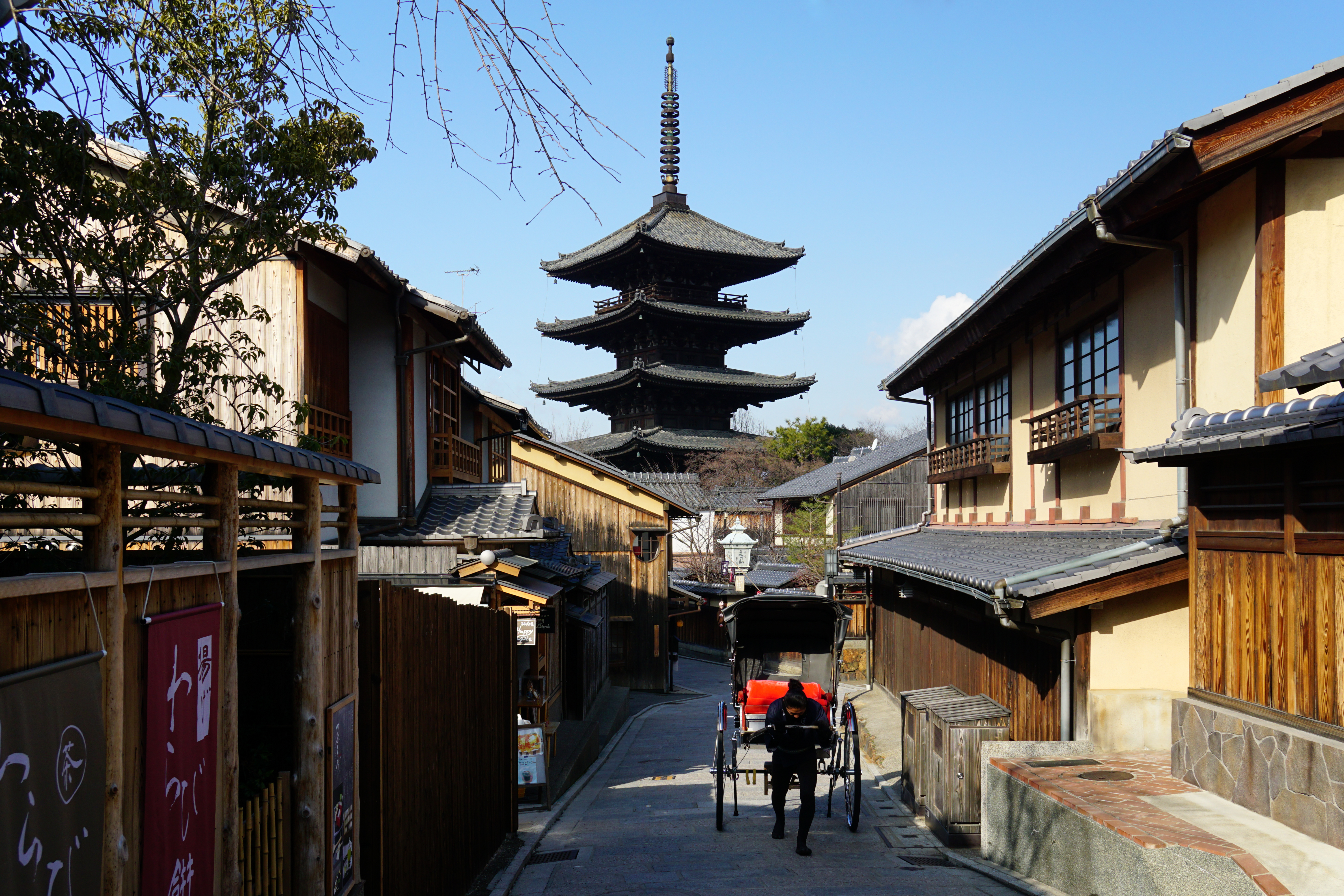 At Yasakakamimachi, Higashiyama-ku, Kyoto, Kyoto prefecture, Japan. View of the five-story pagoda at Hōgan-ji Temple.